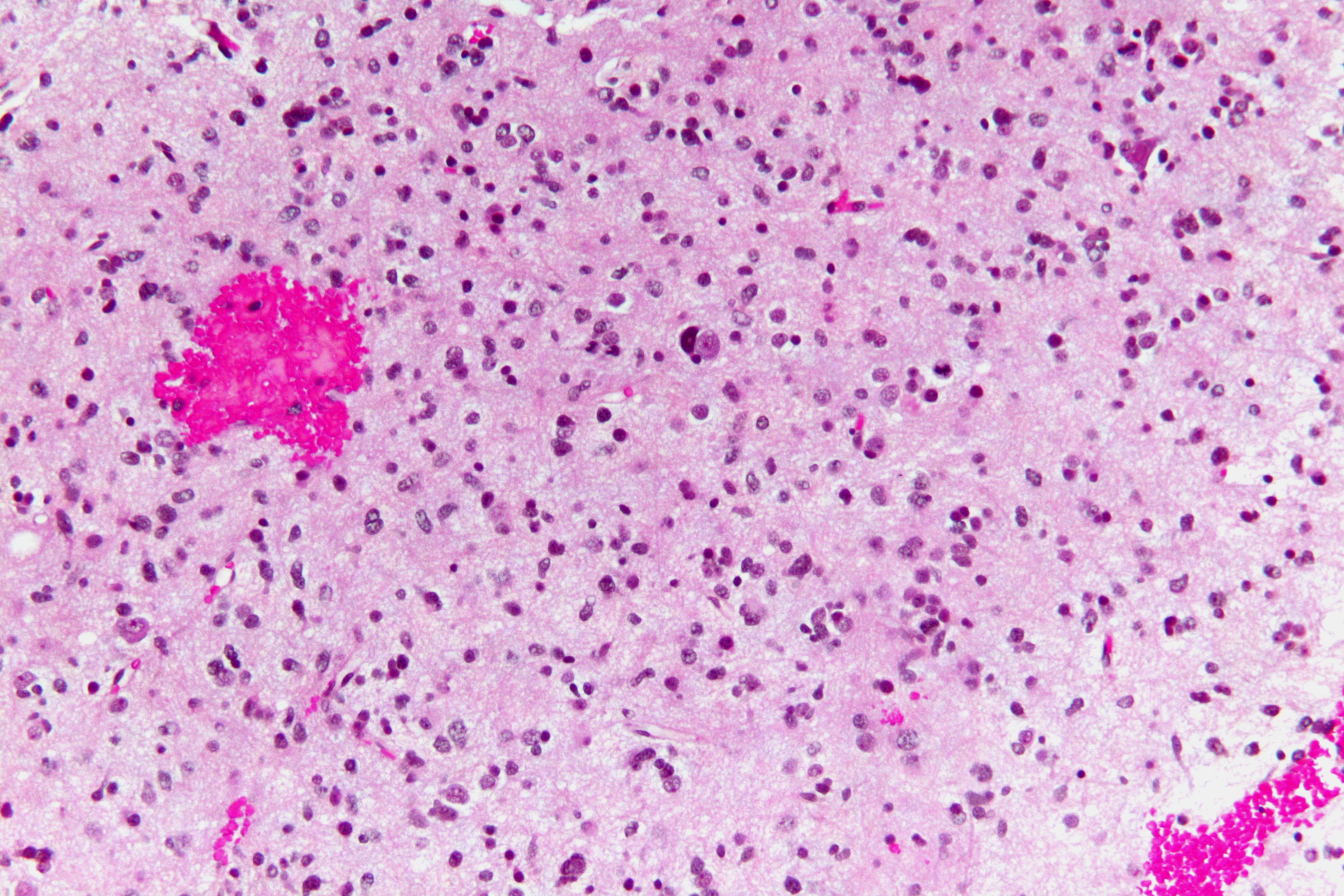 High magnification micrograph of an anaplastic astrocytoma. H&E stain. The typical features are present: Marked nuclear atypia. Elongated nuclei (consistent with derivation from an astrocyte ). Mitoses. Fine fibrillary processes (consistent with a glial cell population). Cytoplasmic staining of atypical cells with GFAP. p53 immunohistochemical stain positivity. High proliferative rate based on Ki-67 staining. Related images Low mag. Intermed. mag. Very high mag. GFAP. Very high mag. Ki-67. High mag. p53. Very high mag.